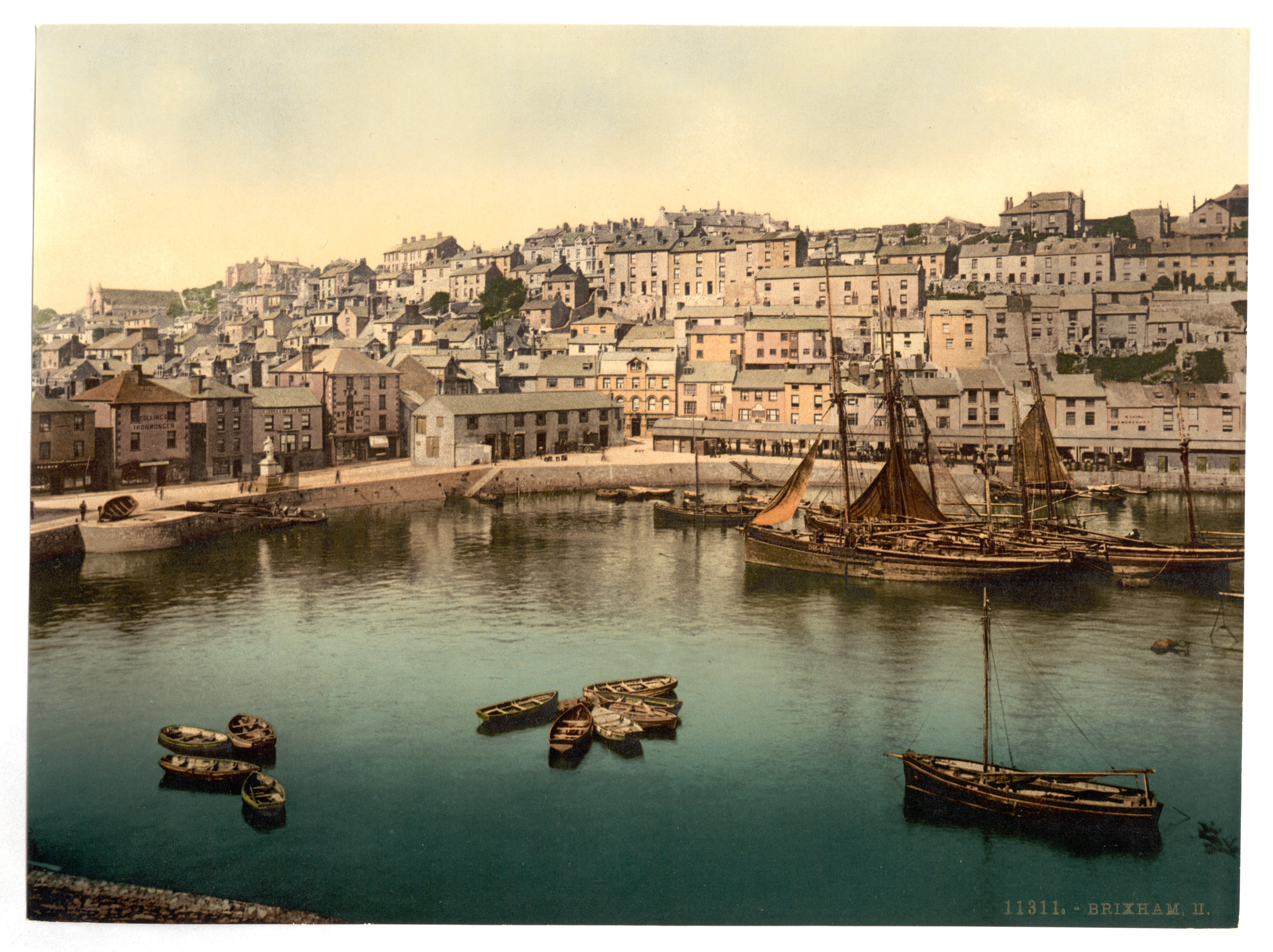 Forms part of: Views of the British Isles, in the Photochrom print collection.; More information about the Photochrom Print Collection is available at Title from the Detroit Publishing Co., Catalogue J-foreign section, Detroit, Mich. : Detroit Publishing Company, 1905.; Print no. "11311".